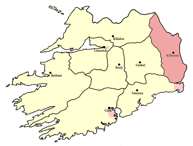 Munster, Synod of Rathbreasail (circa 1111).